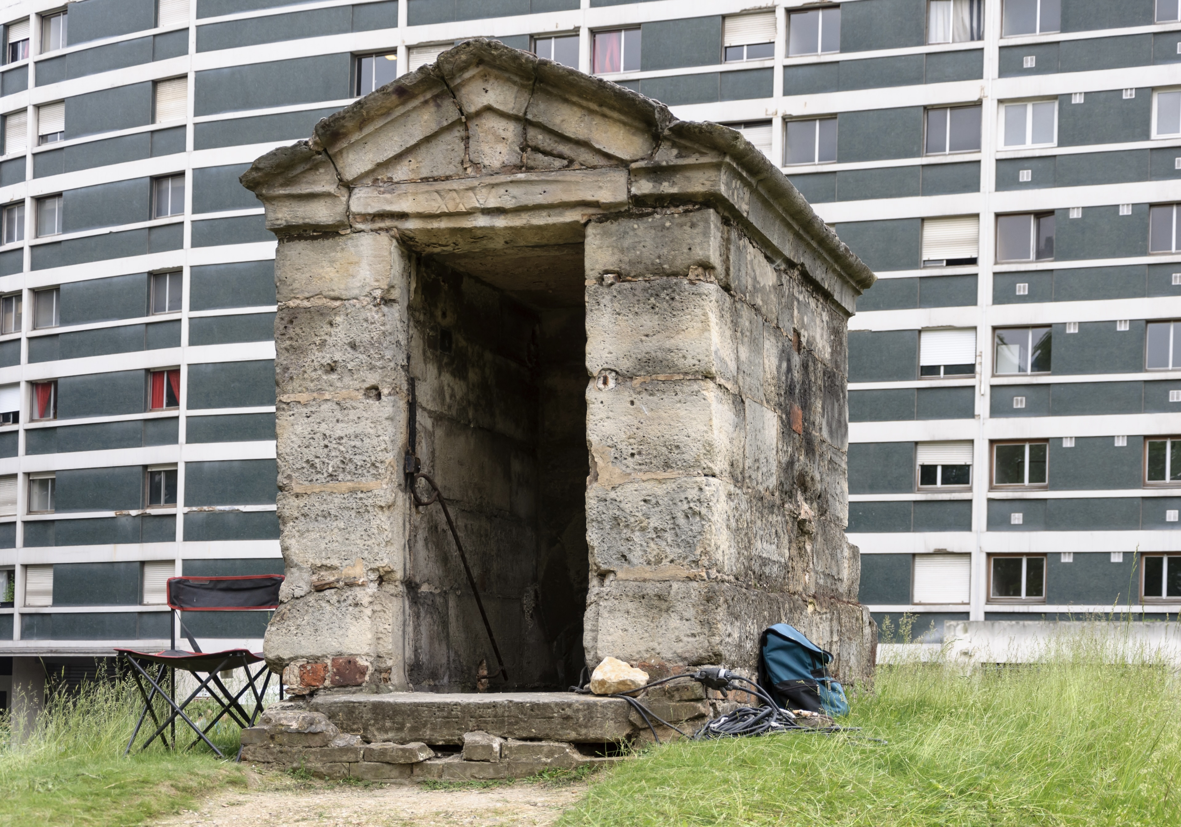 The former regard n. 25, so called “regard de Saux” of the Medici aqueduct, in the Hôpital La Rochefoucauld, Paris 14th arrondissement, France. .